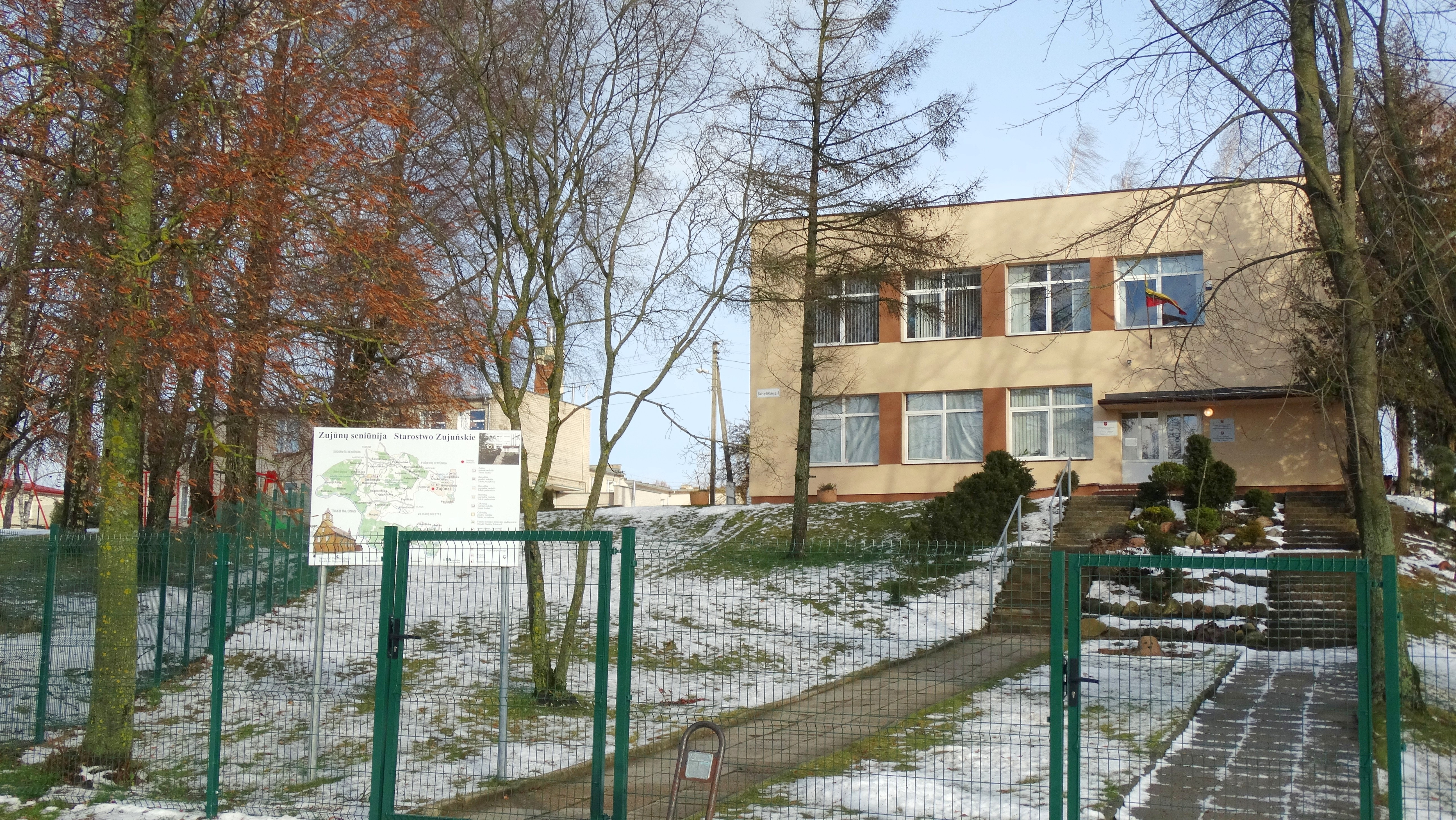 Eldership, Zujūnai, Vilnius district, Lithuania